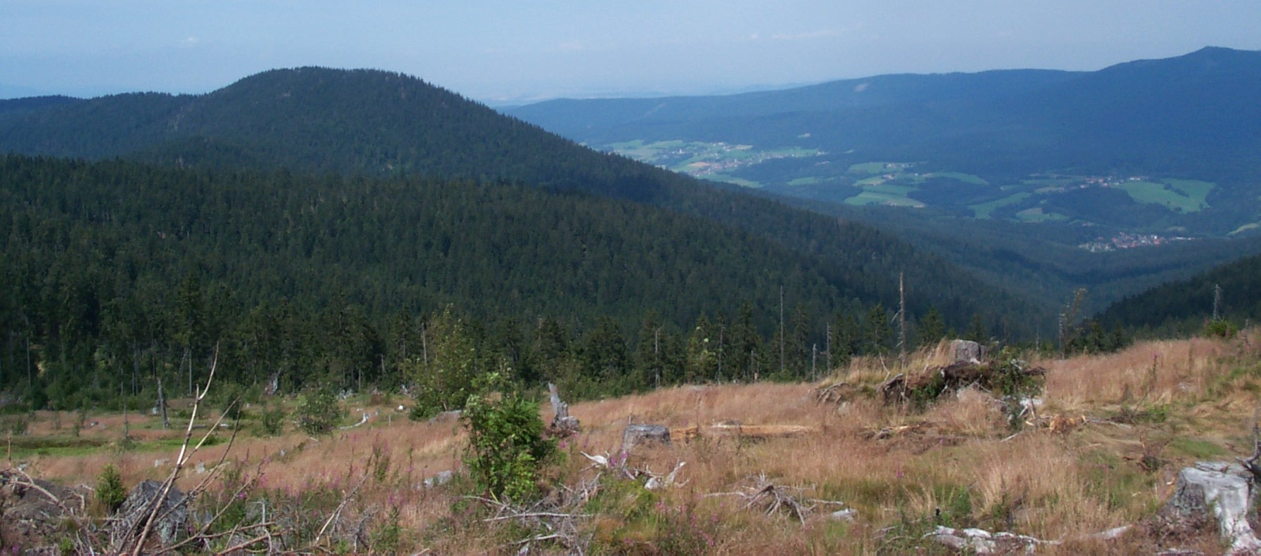 View from Heugstatt to Schwarzeck and Zellertal